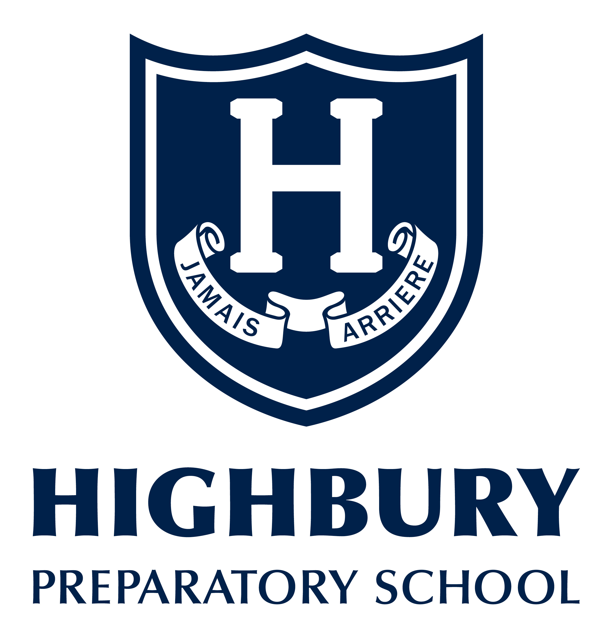 Highbury School Badge